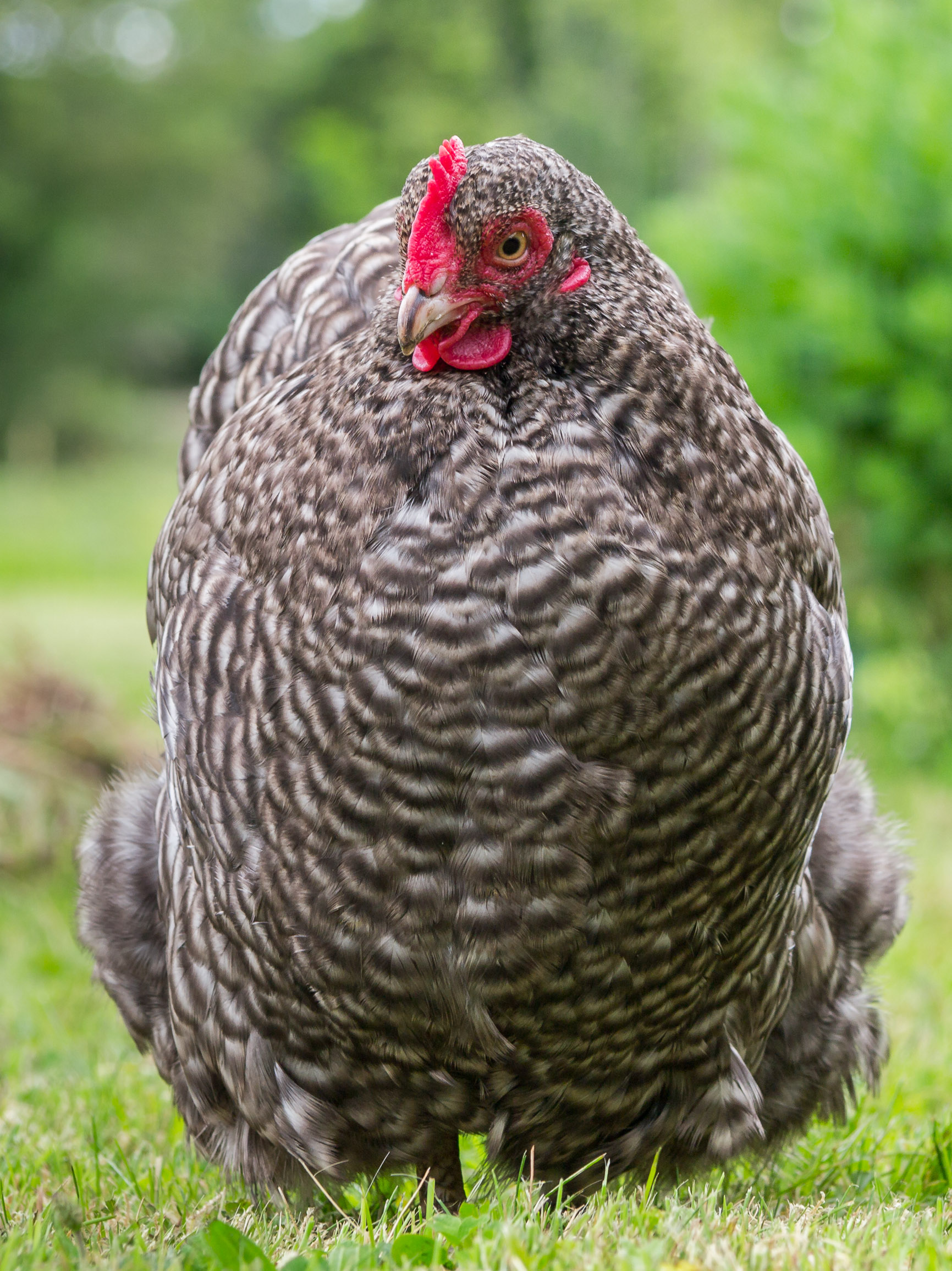 Bonte wyandotte kip